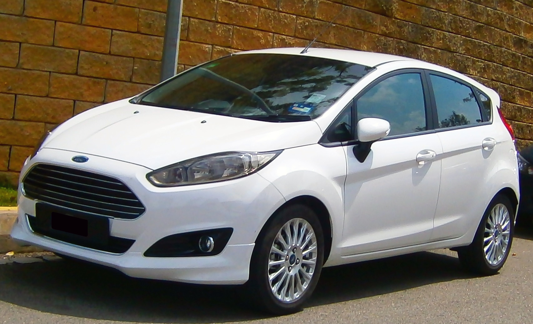 2013 Ford Fiesta Sport 1.5L in Cyberjaya, Malaysia.Colour : Arctic White